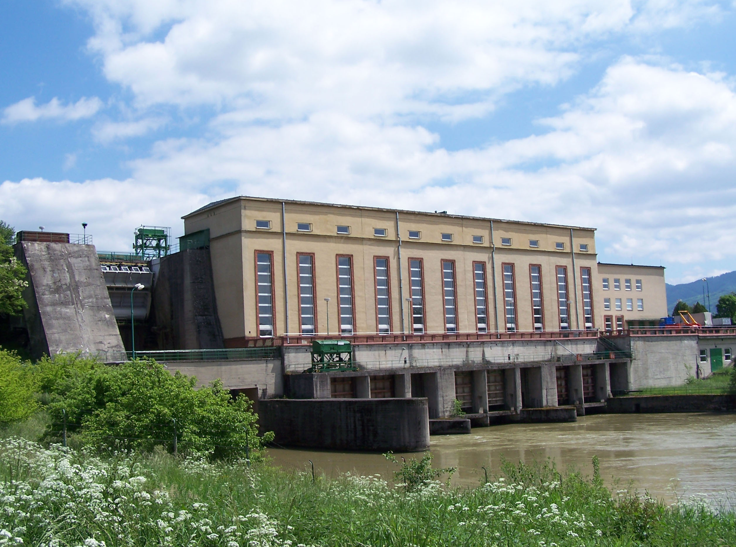 Hydroelectric power plant in Sučany, Slovakia